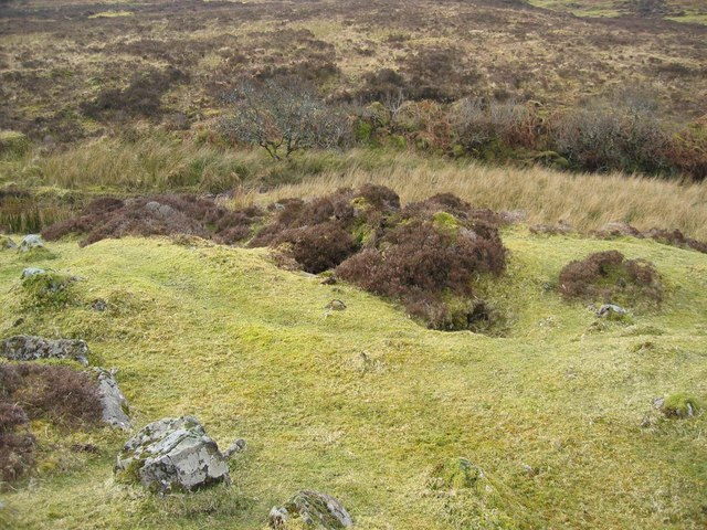 Glen Bracadale Souterrain. The two holes in mid shot are a hole and an original entrance to the underground passageway marked as a souterrain on OS 25k. Not sure it is actually a souterrain. It may rather be the entrance tunnel to an iron age earth house.